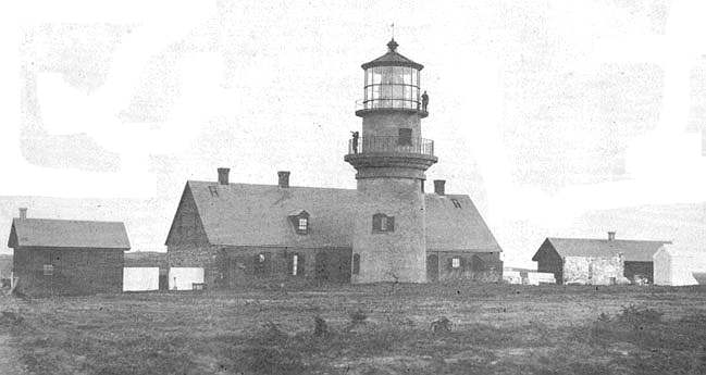 Gay Head Lighthouse, Martha's Vineyard, Massachusetts, USA.